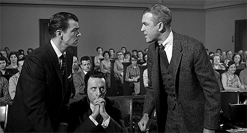 Cropped screenshot of the film Anatomy of a Murder